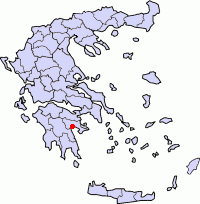 locator map, based on Image:Prefectures Greece grey.png